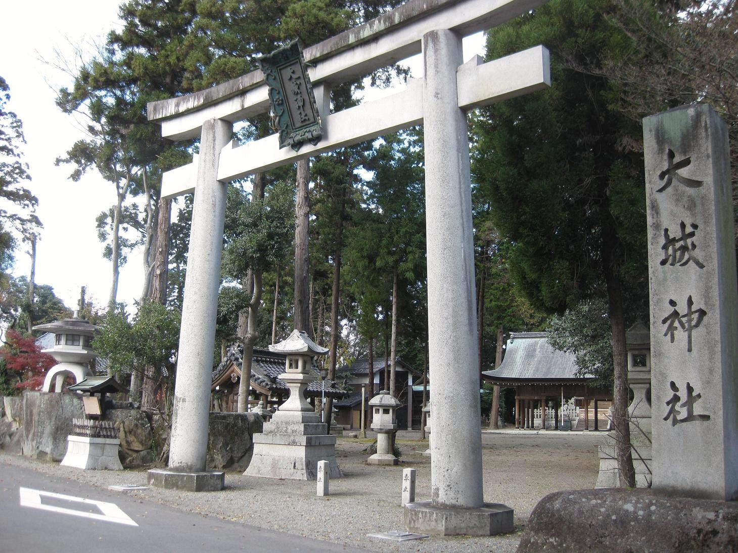 The Oshiro jinja in Gokashokondo-cho, Higashiomi, Shiga, Japan